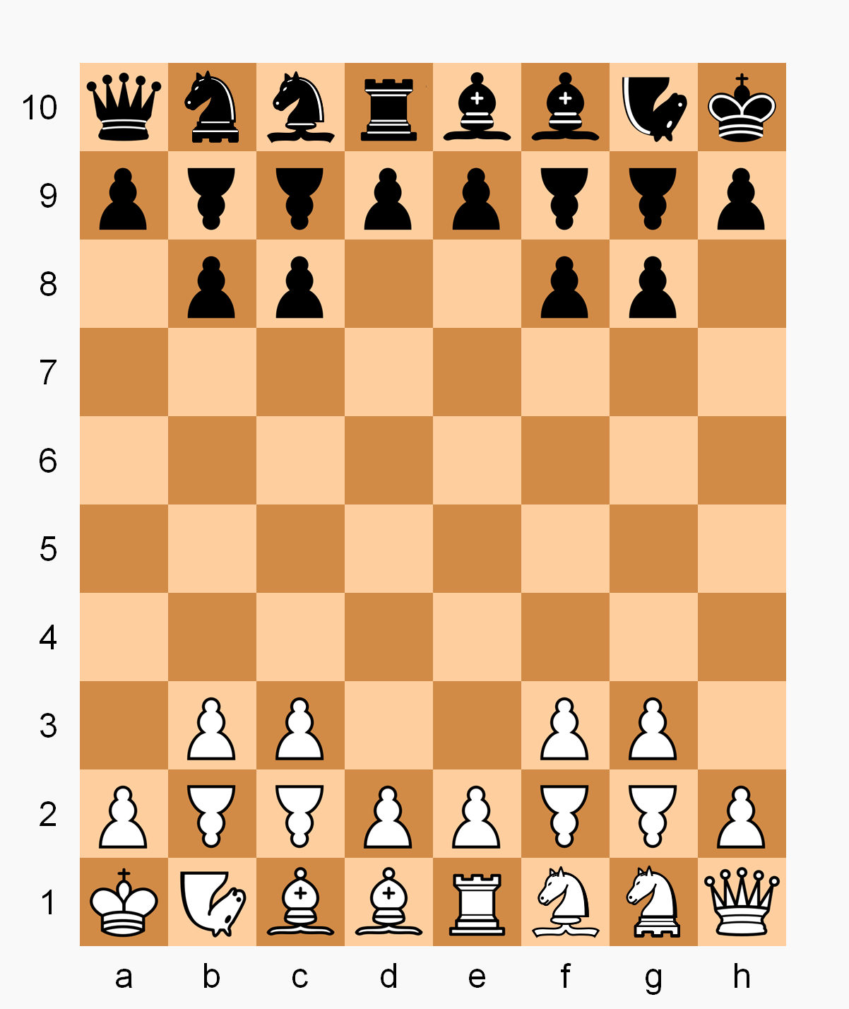 Wolf Chess gameboard & starting position. Using chess icons by User:Cburnett, and compound piece icons by User:Arvindn. All done in MSPaint.